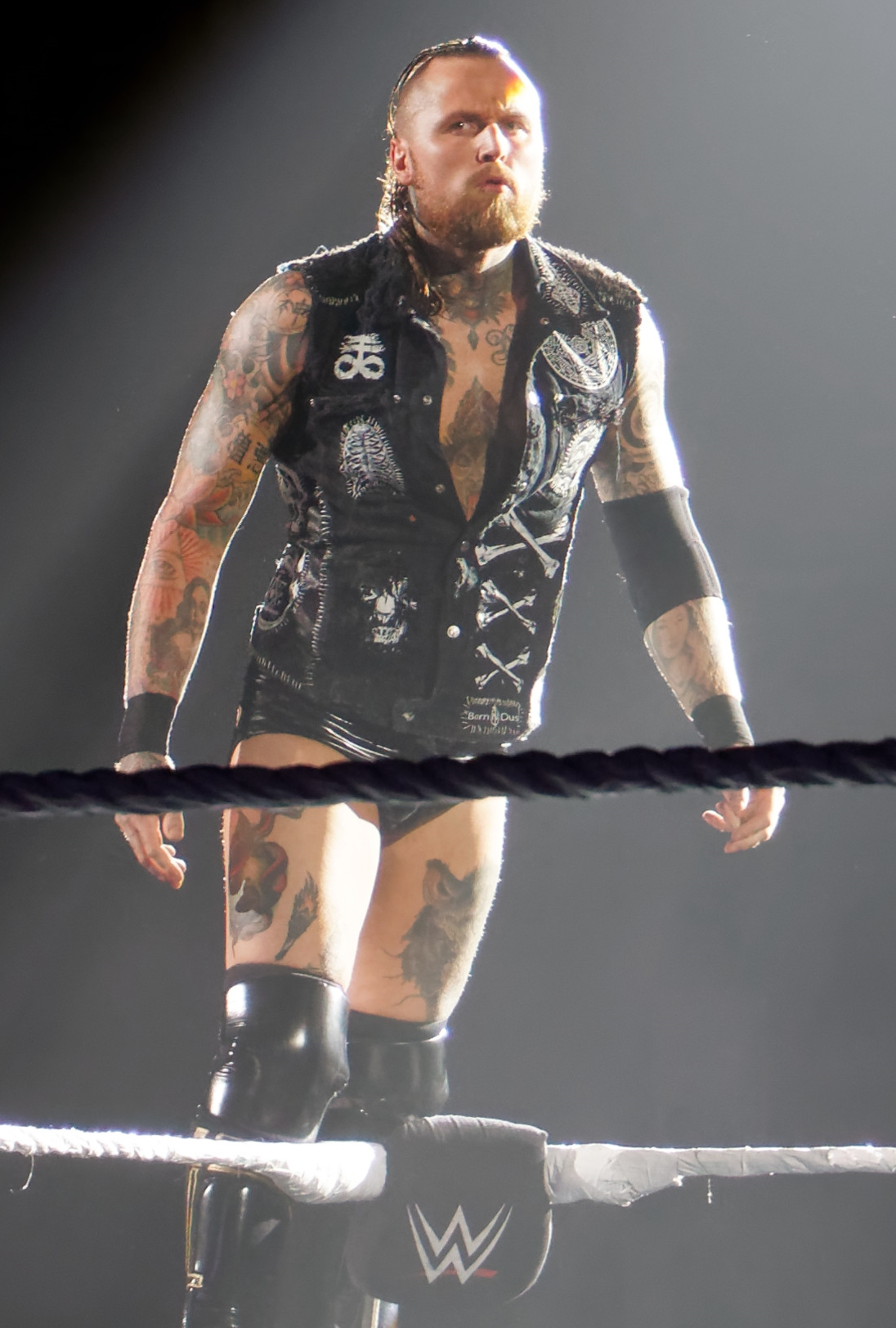 Aleister Black at a WWE event in 2017